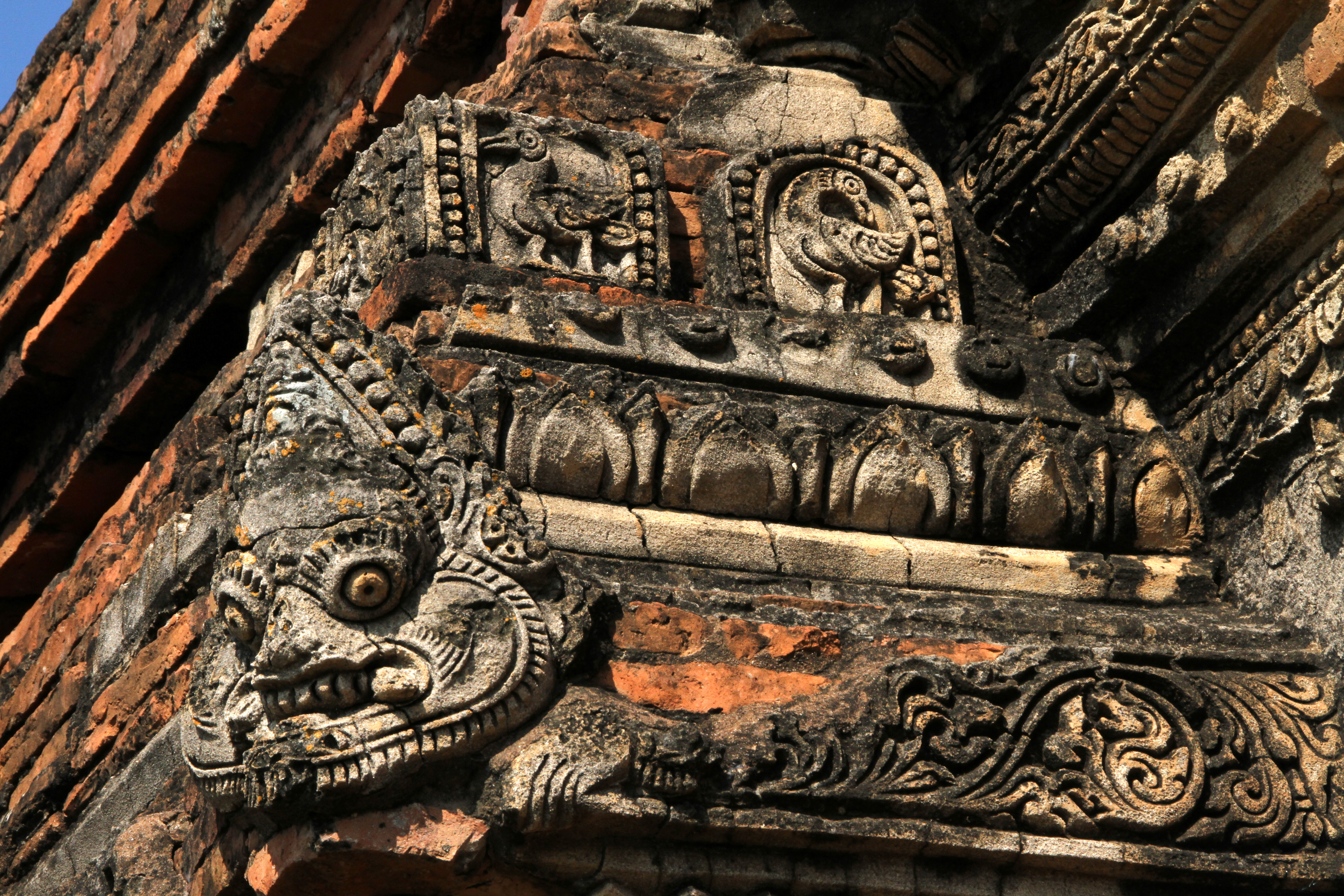 Nandamannya temple in Bagan in Myanmar.